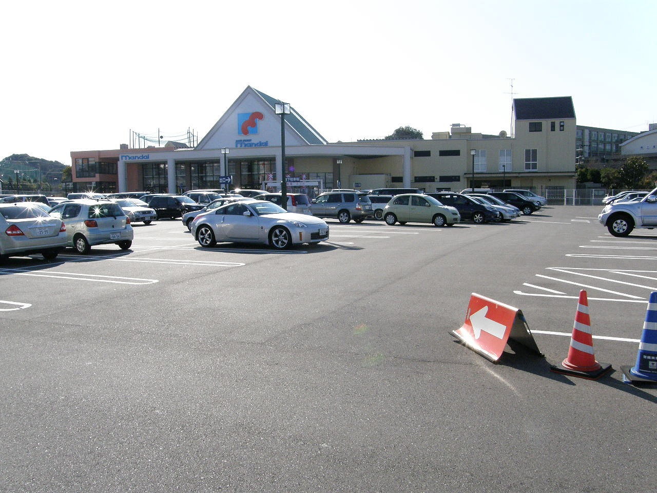 mandai-super-syounen-A